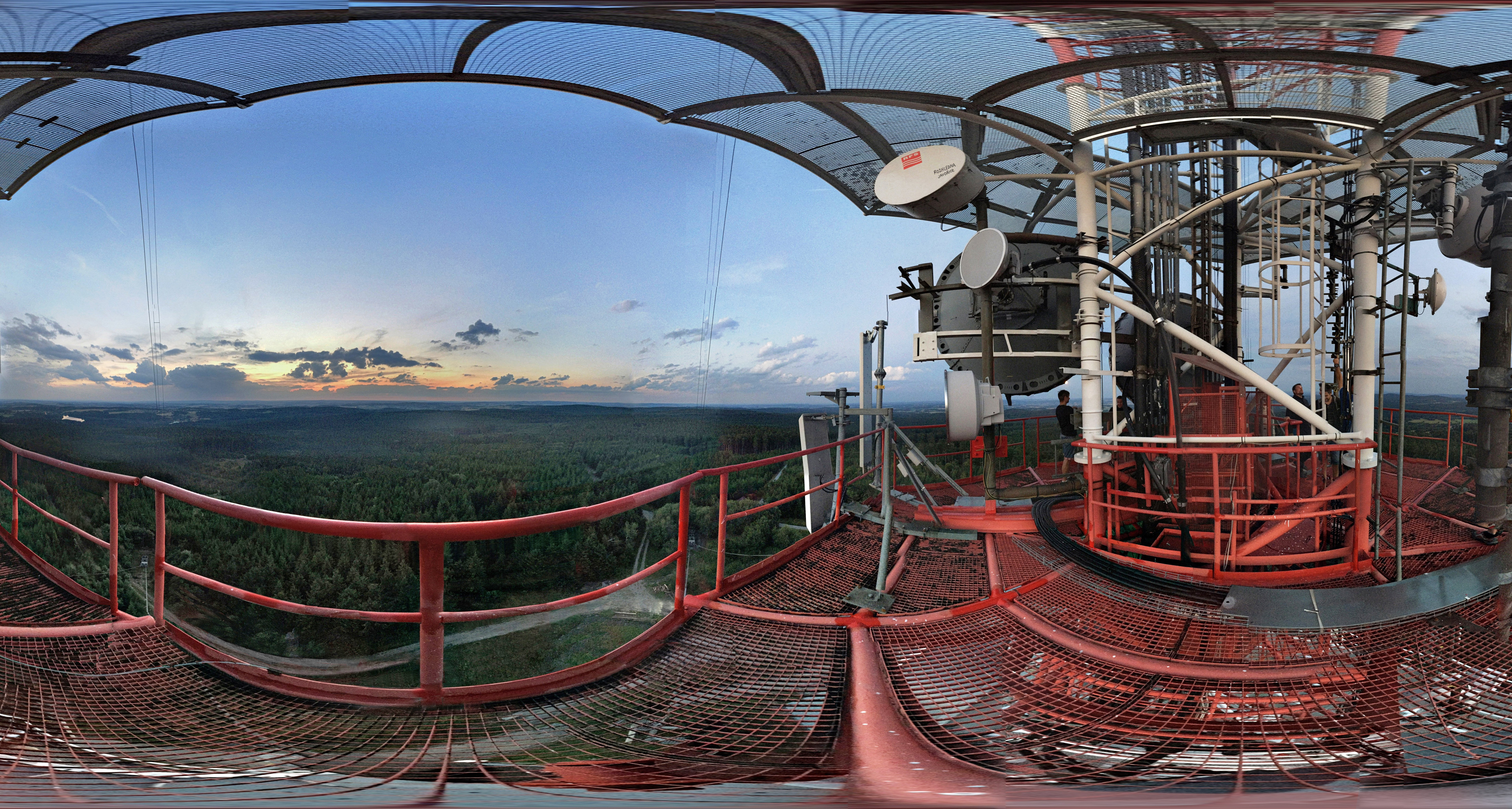 View from Javorice TV tower